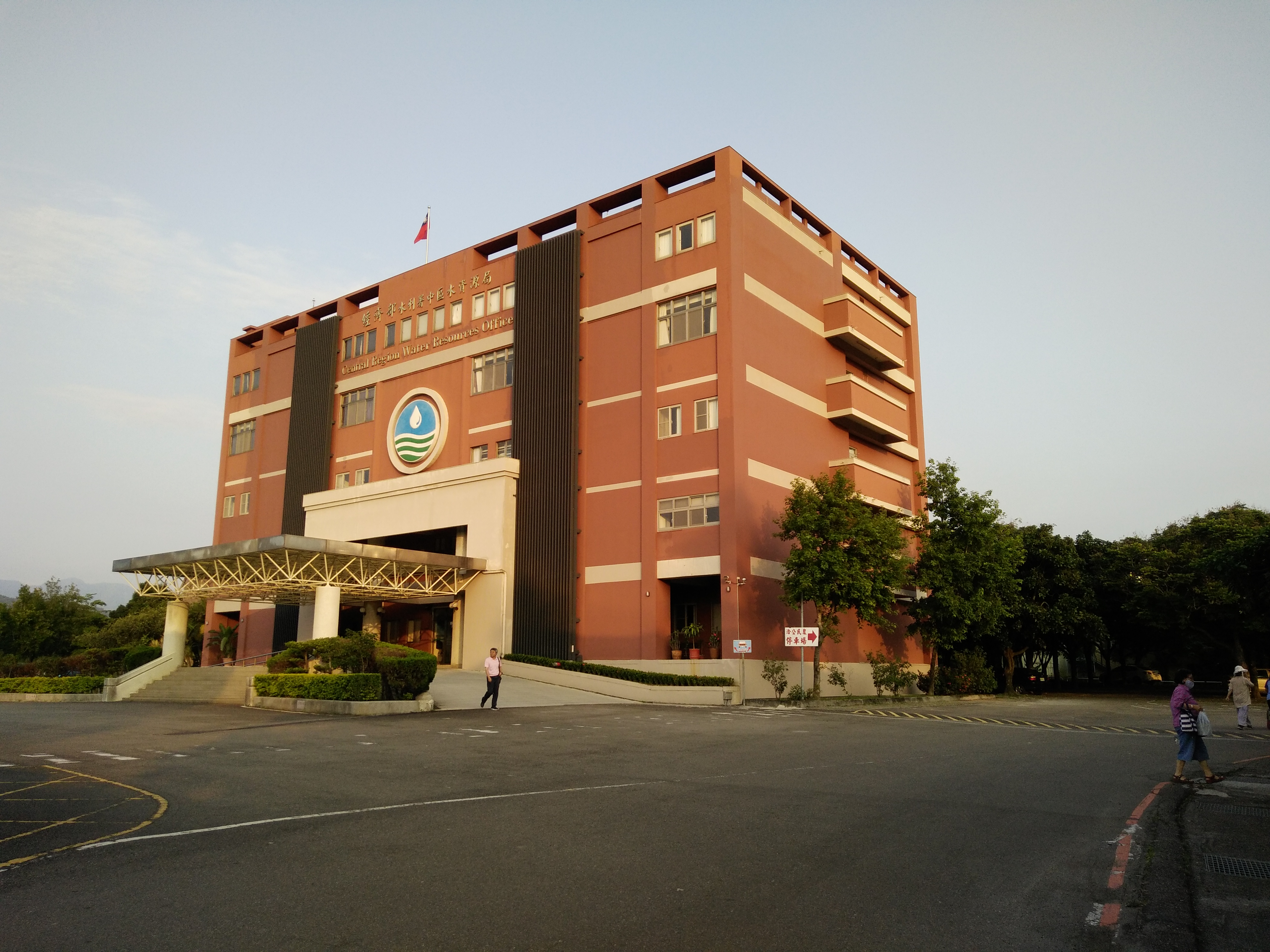 Central Region Water Resources Office Building, Water Resources Agency, Ministry of Economic Affairs. Address: No.195, Fengti Road, Wufeng District, Taichung City.